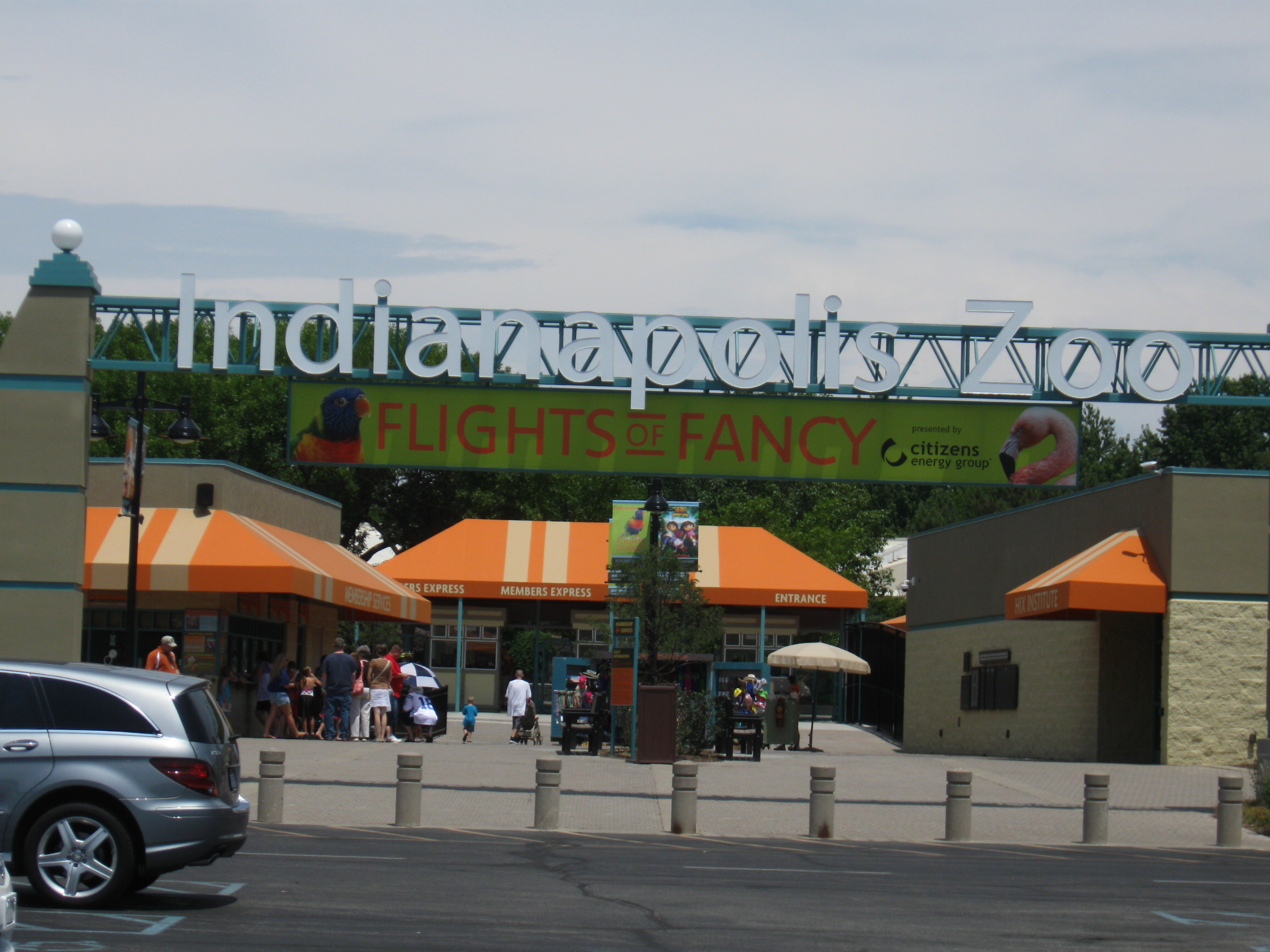 Indianapolis Zoo entrance, Indiana, USA.